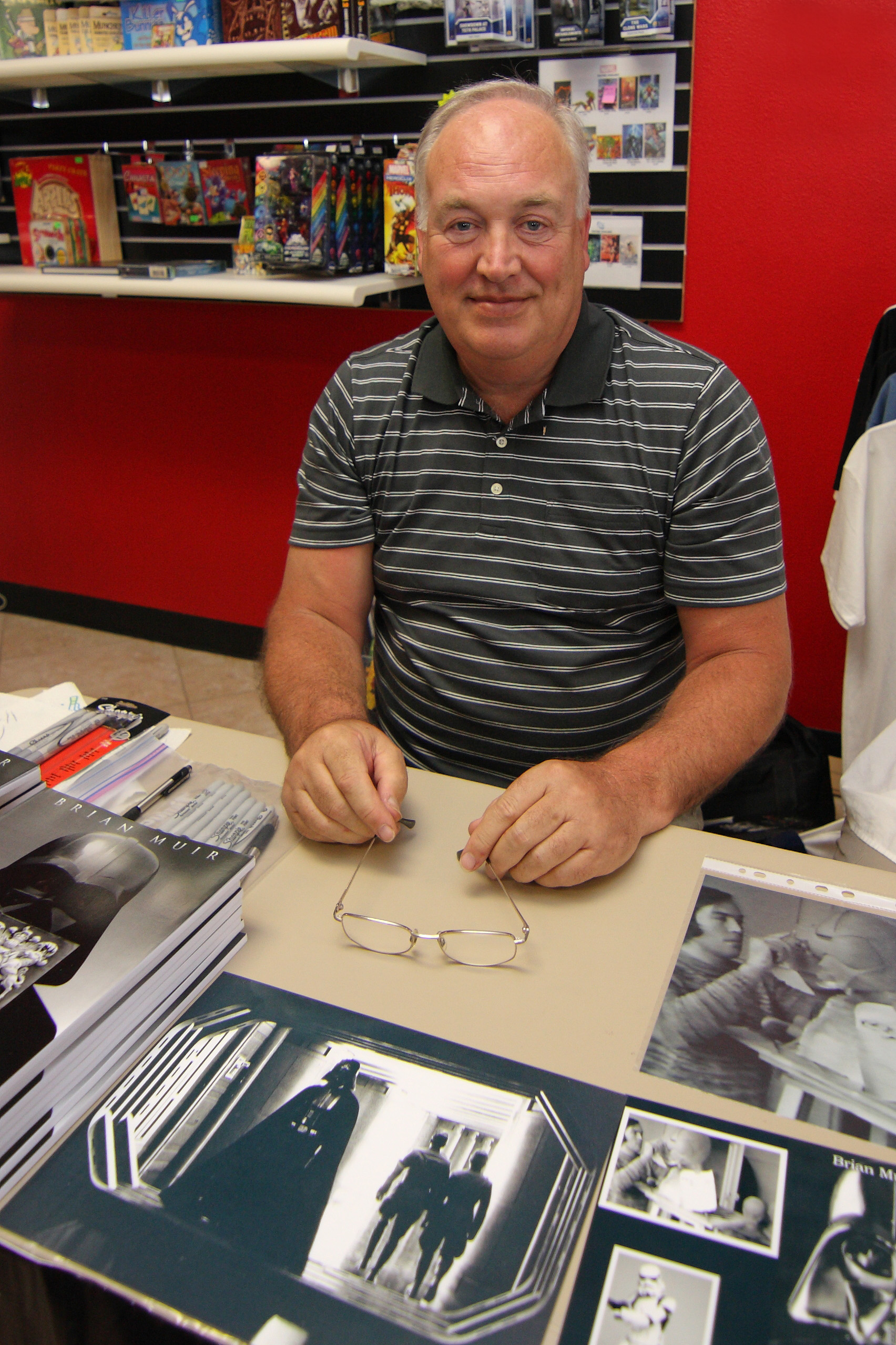 Brian Muir, movie sculptor and the man who sculpted Darth Vader, attended an in-store signing event at Heroes Landing - - on April 17, 2010. He was signing his new book, "In the Shadow of Vader" (which I purchased and had autographed for Athan). He has worked on so many of my favorite films. He also co-sculpted the Space Jockey from ALIEN and the Death Star Droid. See more about him at